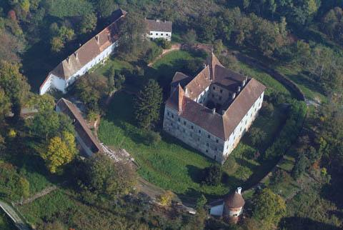 Eberau, Austria, aerialphotography